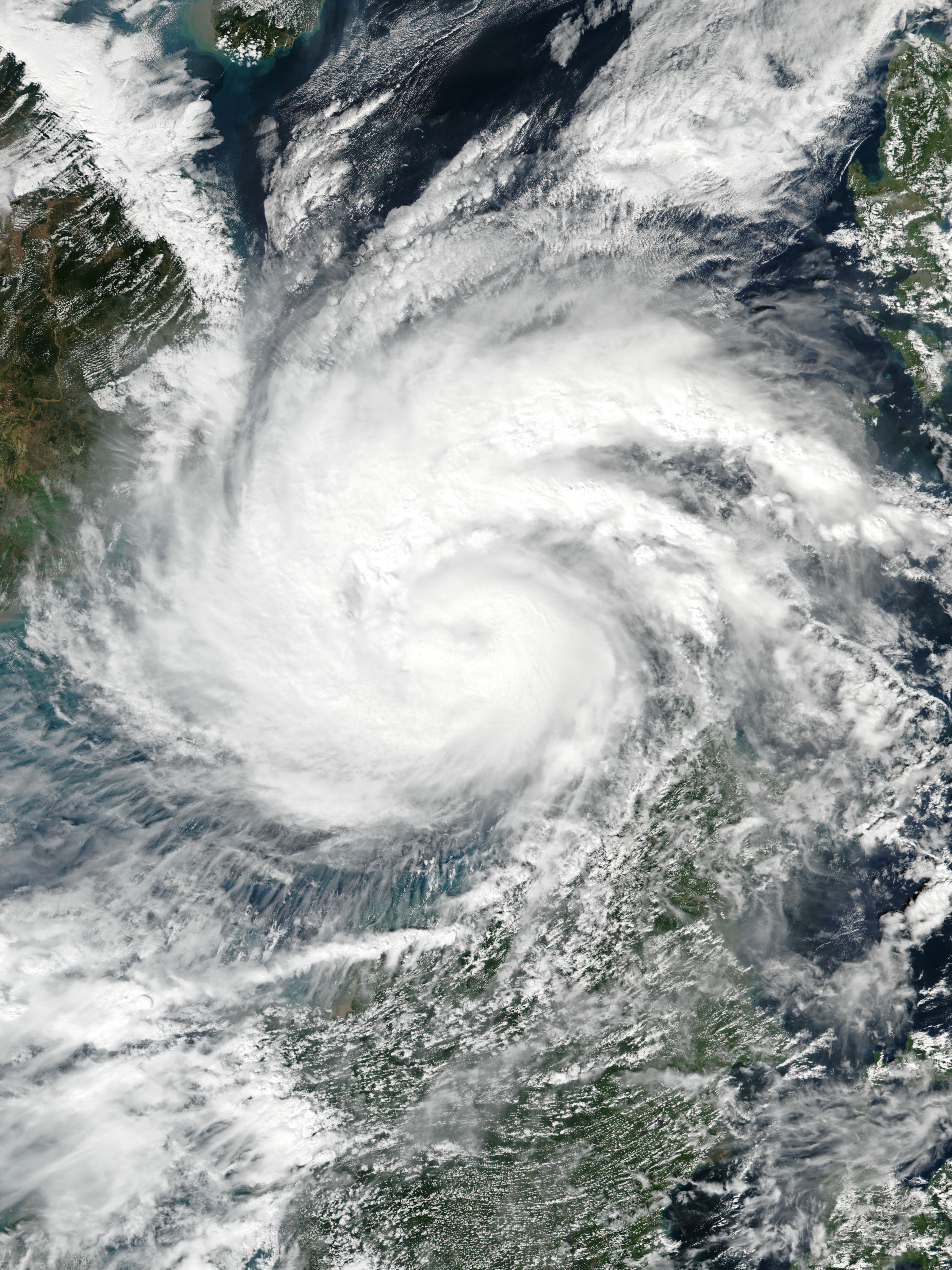 Typhoon Tembin at peak intensity over the South China Sea on December 24, 2017.